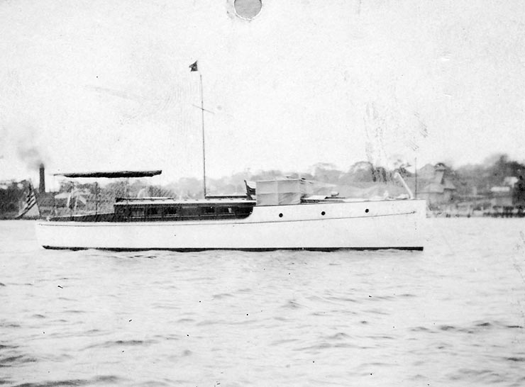 The motorboat Natoya, prior to her service as the United States Navy patrol boat USS Natoya (SP-396).